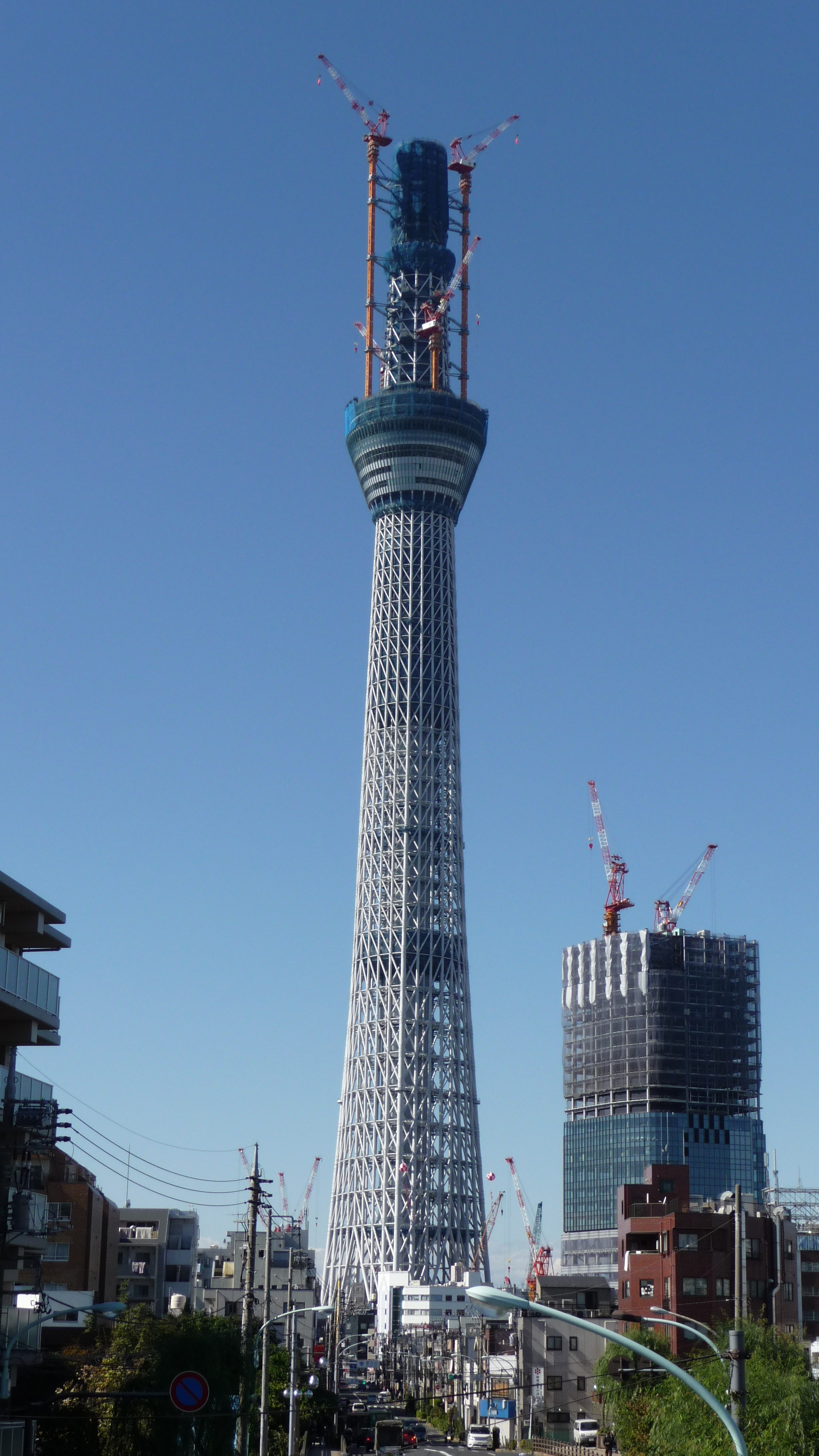 Tokyo Sky Tree under construction at a height of 497 m. Assembly of the main tower section was completed on 23 October 2010. The gain antenna will then be raised, taking the height to 634 m. Initial assembly of the supports for the 2nd observatory started on 27 October 2010. Photo taken on 3 November 2010. (Note that the date in the file name, 20101027, corresponds to the date of the original version uploaded.)